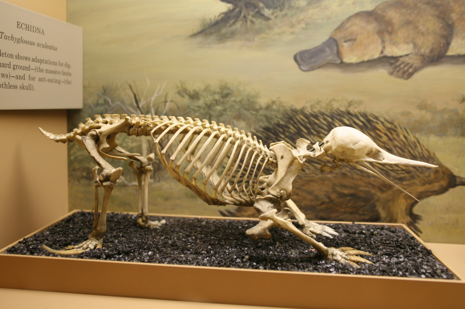 Echidna (Tachyglossus aculeatus)